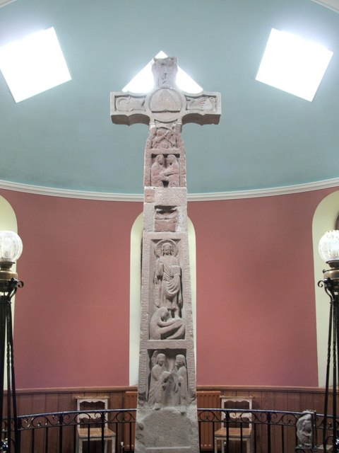 The Ruthwell Cross. This Anglo-Saxon cross, inside Ruthwell Parish Church ( 48232), dates from a time when Ruthwell lay within the Anglian kingdom of Northumbria. It was smashed up in the seventeenth century on the orders of the General Assembly of the Church of Scotland, was later restored from as many pieces as could be found, and was moved inside the church in 1887. The cross bears pictorial carvings on all sides, some Latin texts, and Runic inscriptions that are said to be excerpts from "The Dream of the Rood", one of the earliest surviving Old English poems ("rood" is an old word for "cross"). The carvings on the north and south sides are thought to be mainly of scenes from the Gospels. The south side is seen in this photo. The crosspiece itself is a reconstruction based on conjecture; aside from that, starting from the top and working down, the carvings visible in the photo are considered by some to represent: an archer (seen shooting towards the upper right); Mary and Elizabeth meeting (two figures standing together); the woman who washed Jesus' feet with her tears and dried them with her hair; and the healing of the man born blind. There are further illustrations, not visible here because they are below floor level; the cross is too tall for the ceiling of the church, and stands in a specially-constructed pit. The north side carries similar images, while the east and west sides have vine-tracery surrounded by runes. For another view, see: 116180. Outside the church, an information panel on the "Ruthwell Connection" mentions that the history of the cross is closely associated with three former ministers of this parish; one of these, Henry Duncan, the restorer of this cross, also founded the Savings Bank in the village of Ruthwell, where there is a museum commemorating his life and work: 663444.